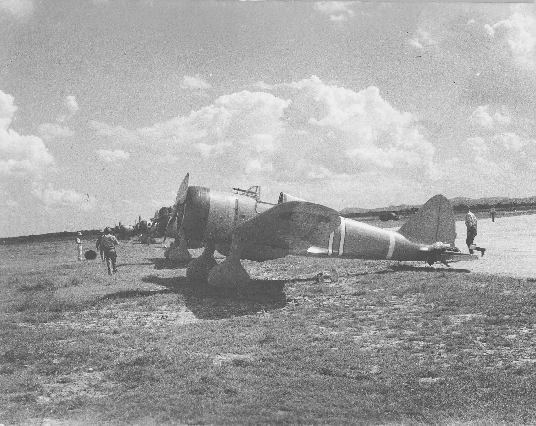 Nakajima Ki-27 at an airfield in Kwangtung